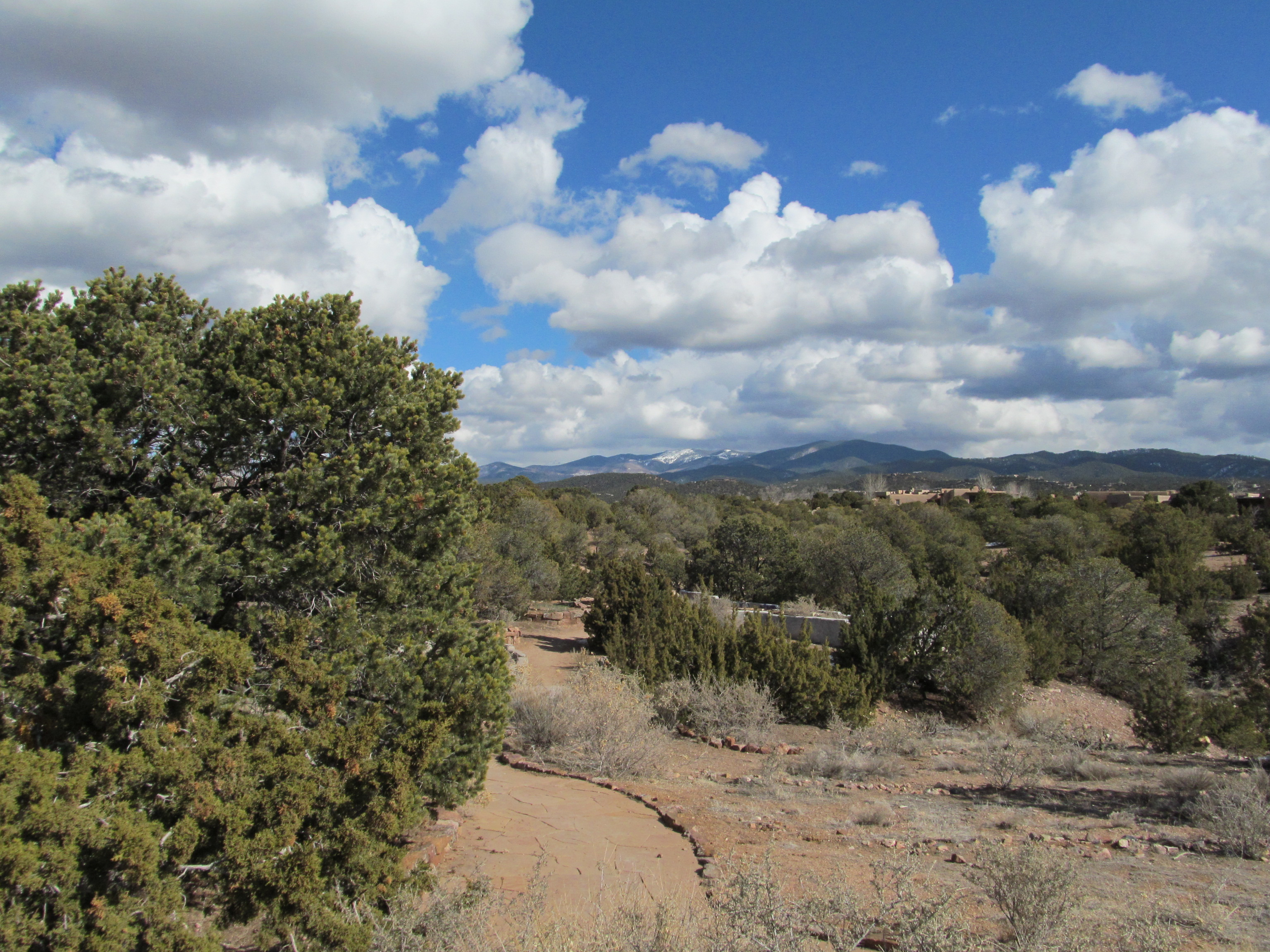 Natural landscape of Old Fort Marcy Park in Santa Fe New Mexico.